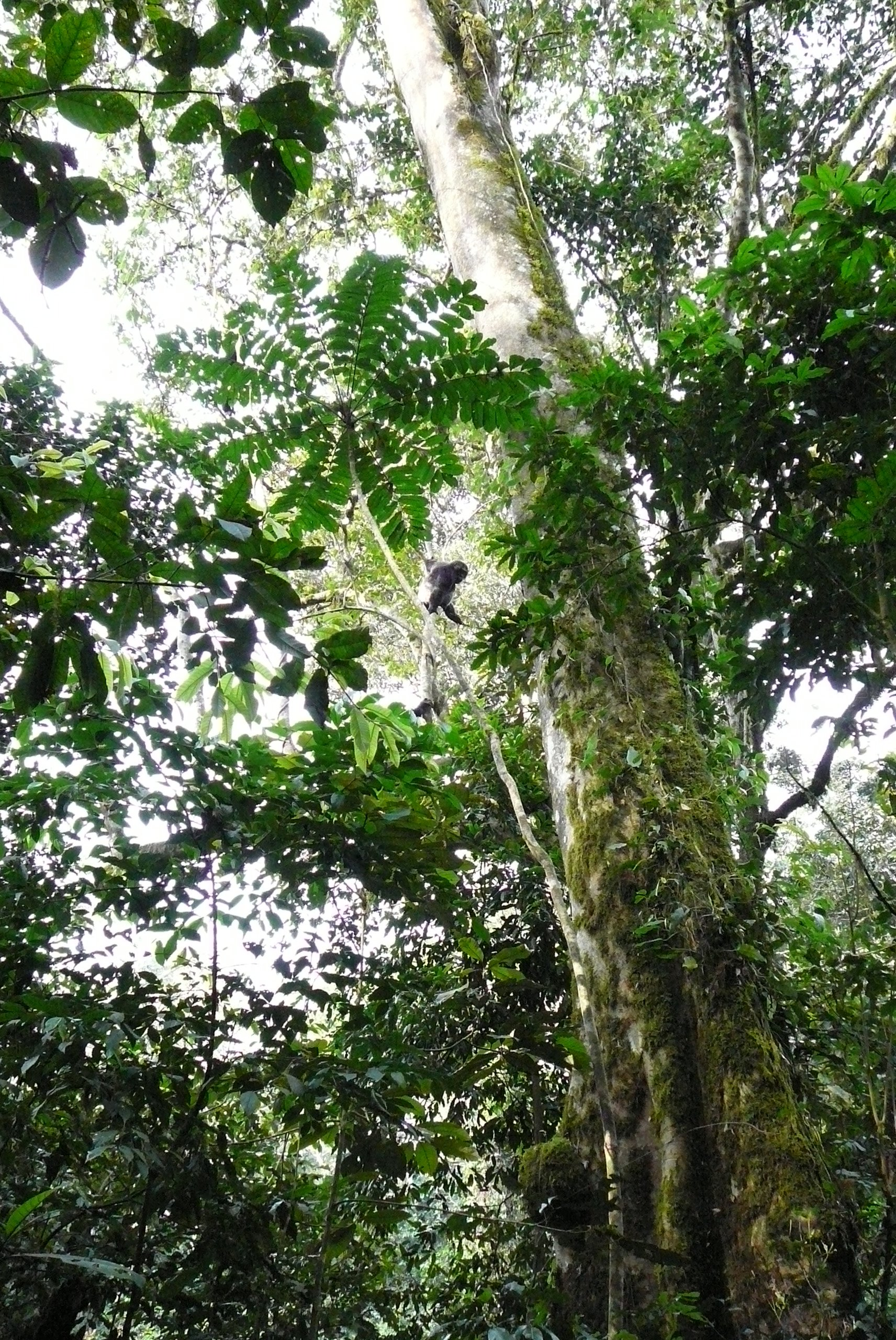 Kibale NP Uganda (Common chimpanzee on a tree)